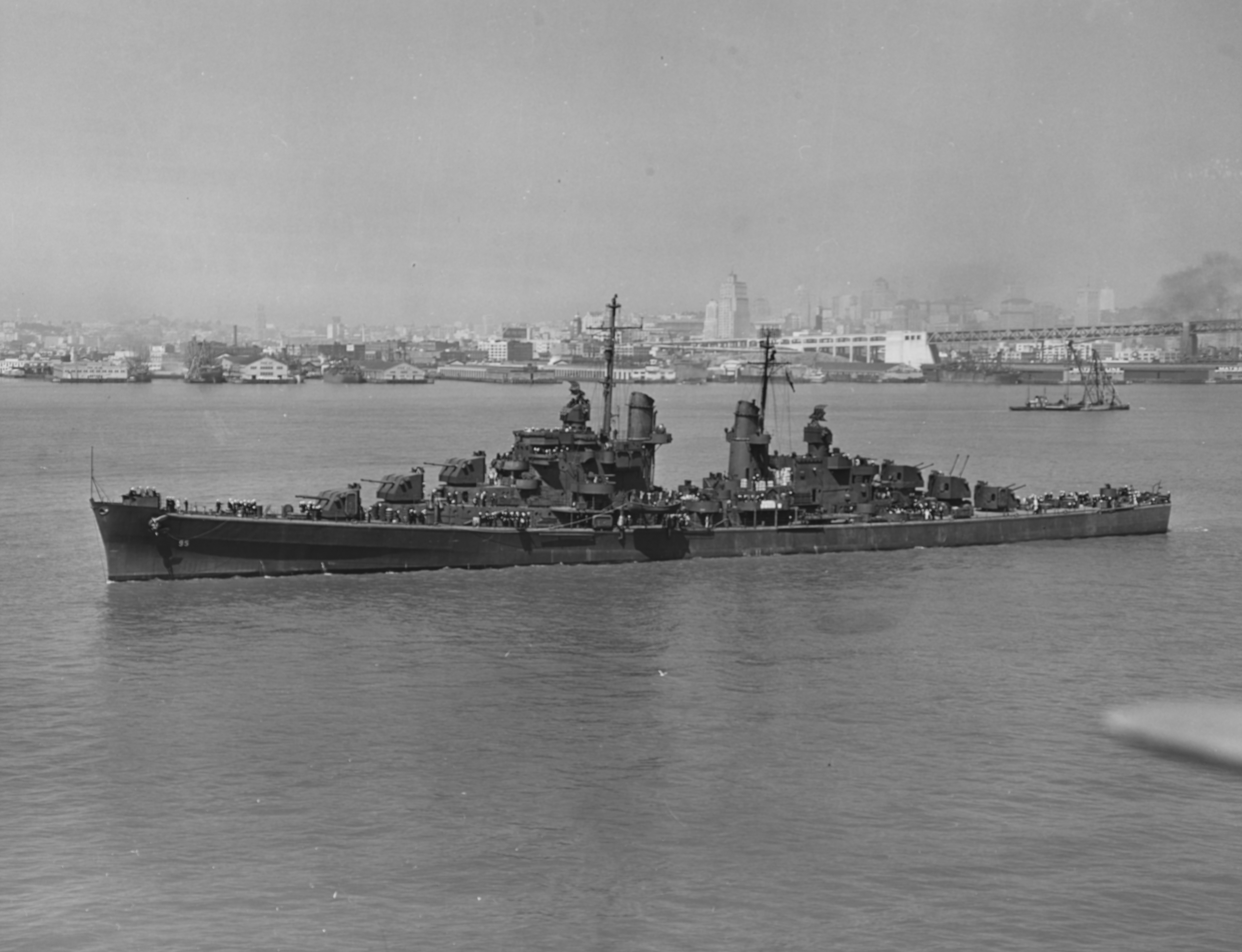 The U.S. Navy light cruiser USS Oakland (CL-95) in San Francisco Bay, California (USA), with the San Francisco waterfront in the background, 2 August 1943.